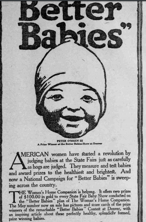 Snippet of an Oregon Newspaper from 1913 about "Better Babies"